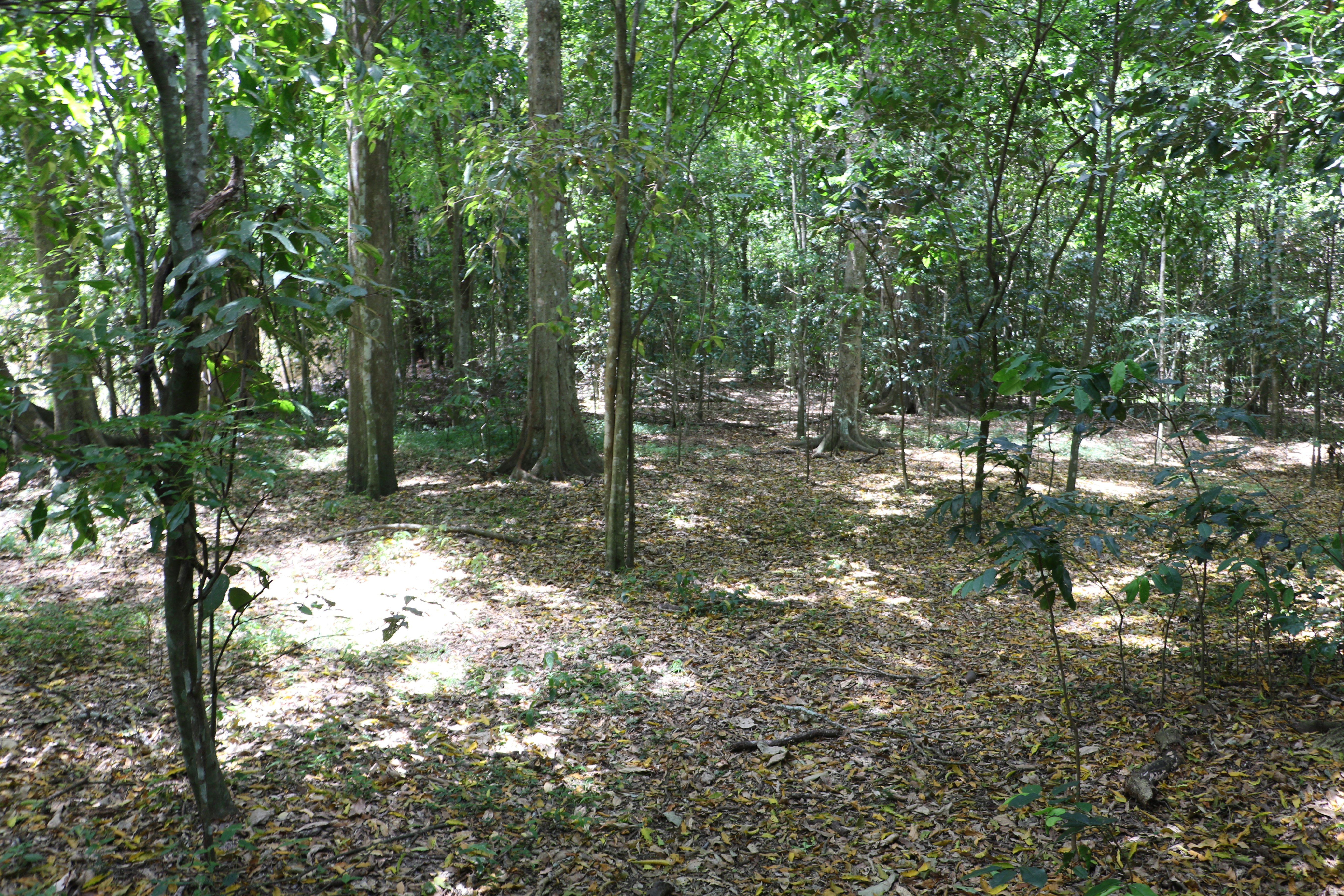 Moore Park Nature Reserve, dry rainforest, near Kyogle, NSW, Australia. Trees include Aphananthe philippinensis